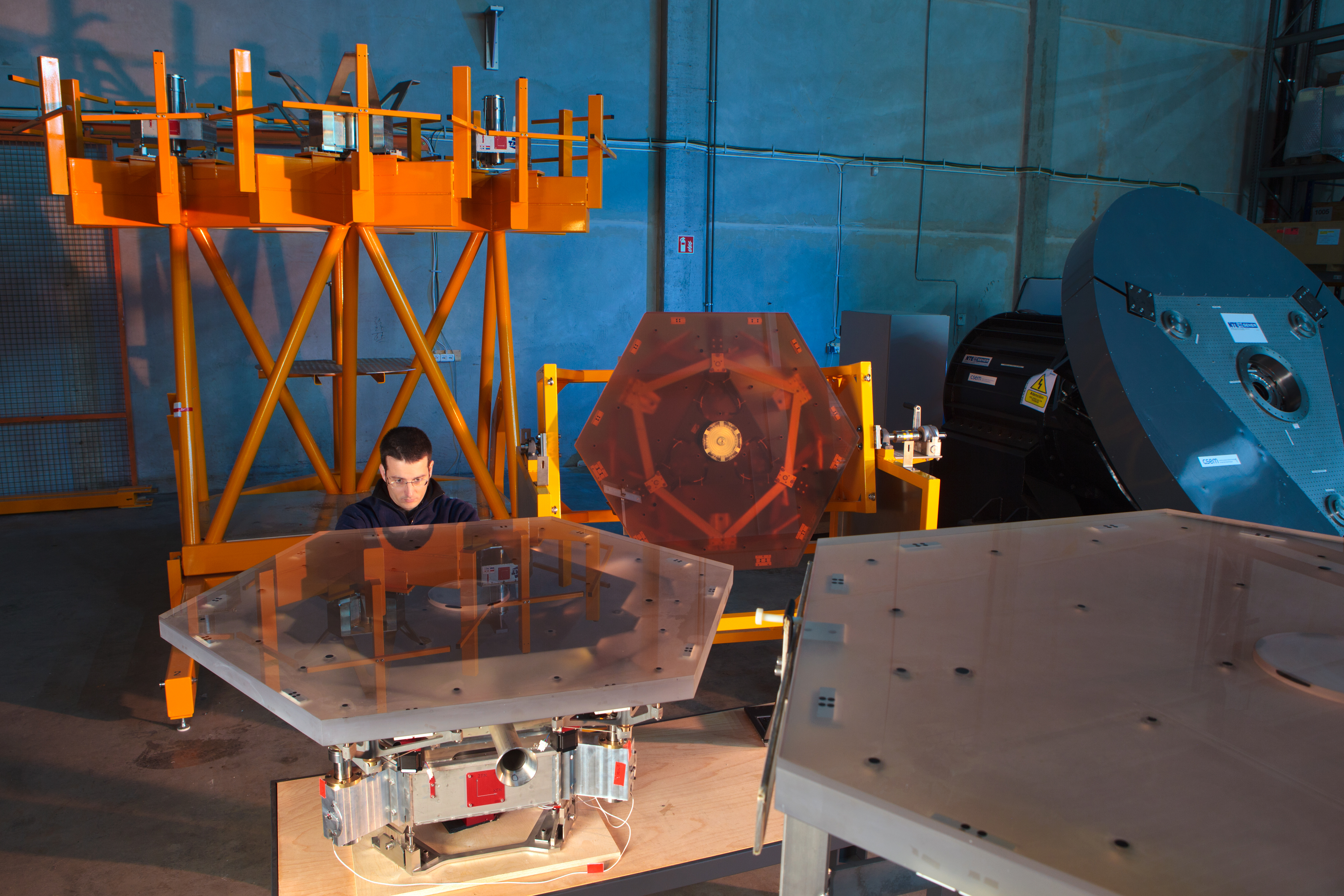 Several test segments of the giant primary mirror of the E-ELT are currently undergoing testing close to ESO’s headquarters in Garching, Germany. This picture shows an engineer adjusting the complex support mechanisms that control the shape and positioning of just one of the 798 segments that will form the complete primary mirror of the telescope. Two other segments appear in the picture.